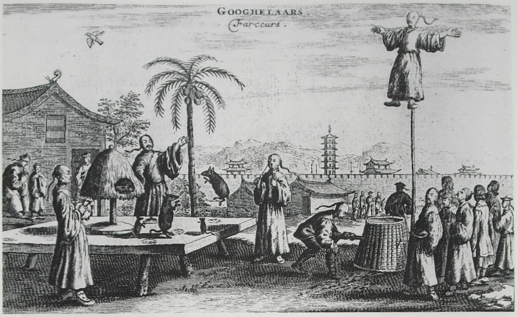 Street circus performers in China ca. 1655. Note the fairly large performing mice, and remarkably large performing rats.